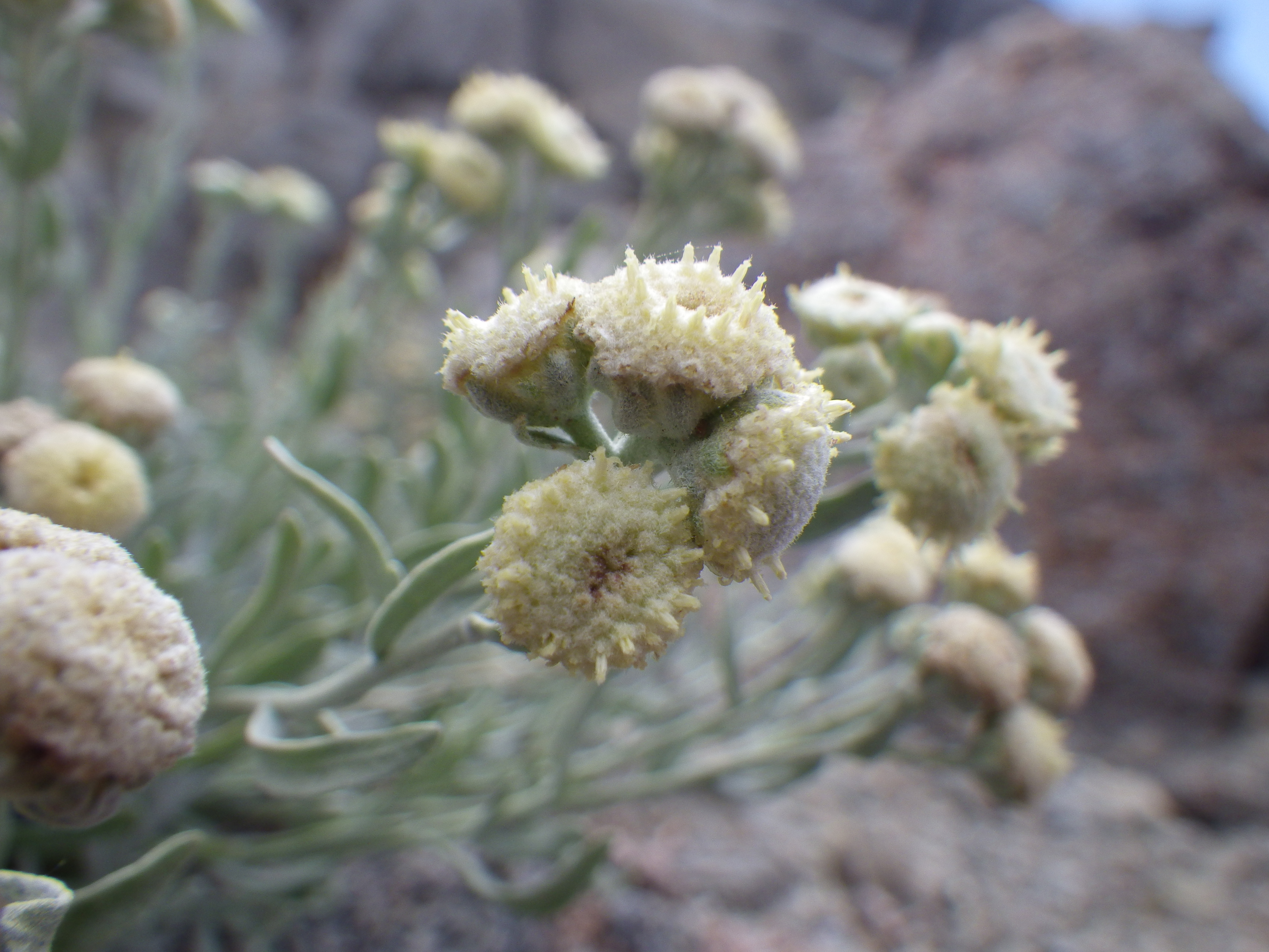 The perennial herb was found most commonly above treeline and then sporadically on open rock slopes and outcrops.